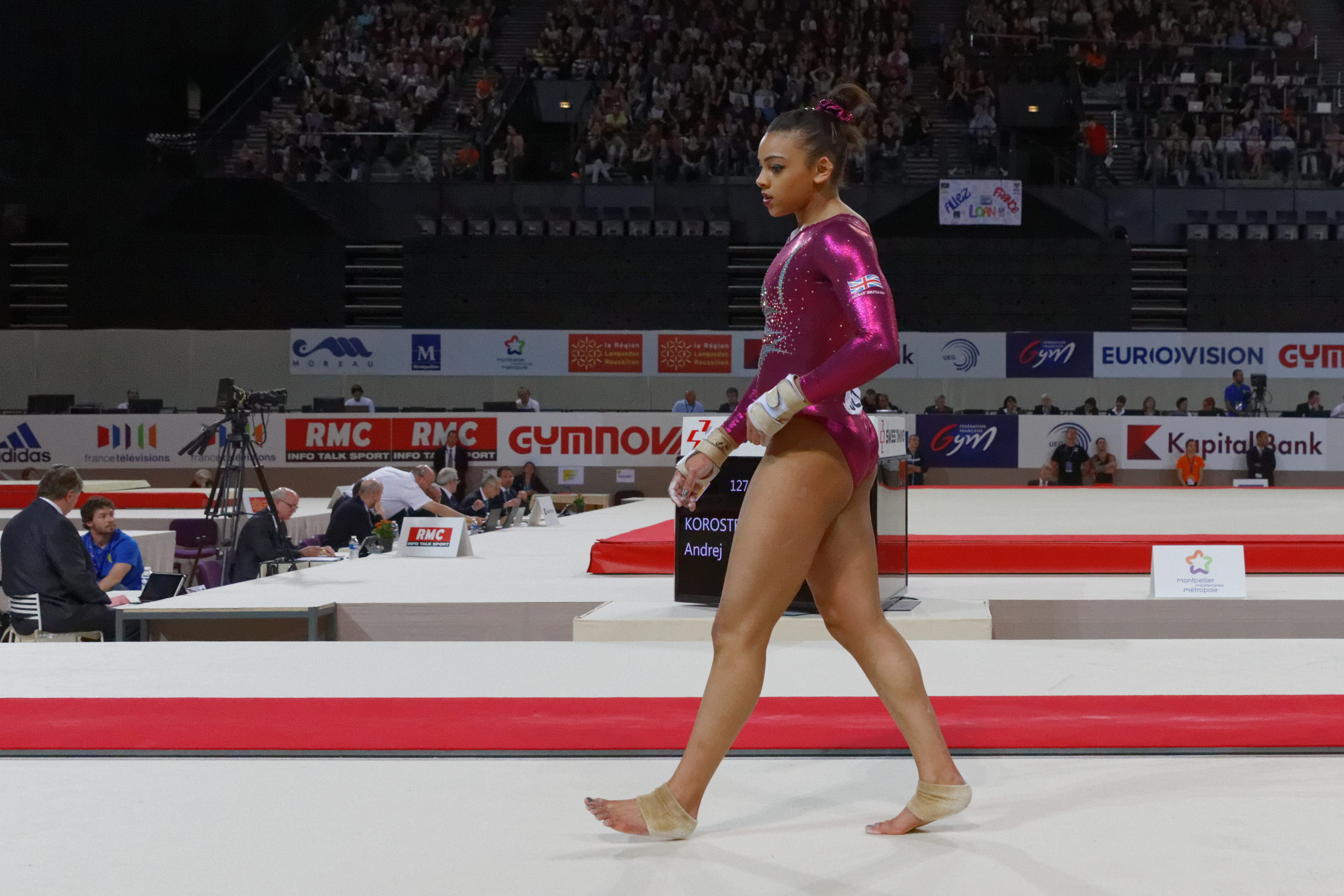 2015 European Artistic Gymnastics Championships. Vault.